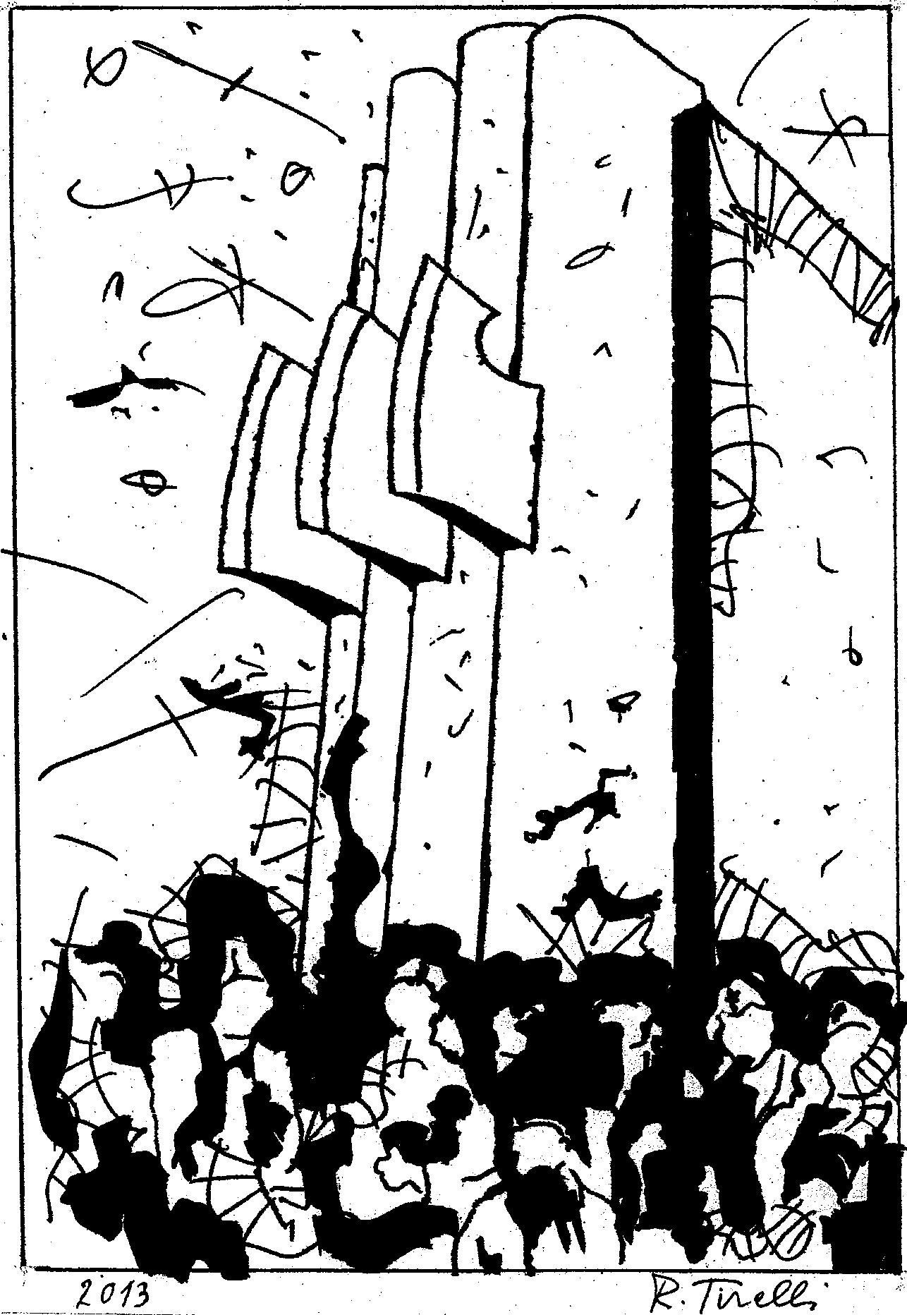 "Gianni Brera, il periodo dell' infatuazione" by Roberto Tirelli